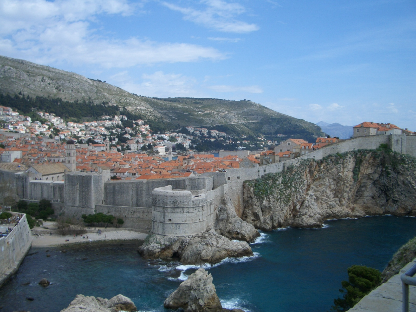 The wall of Dubrovnik